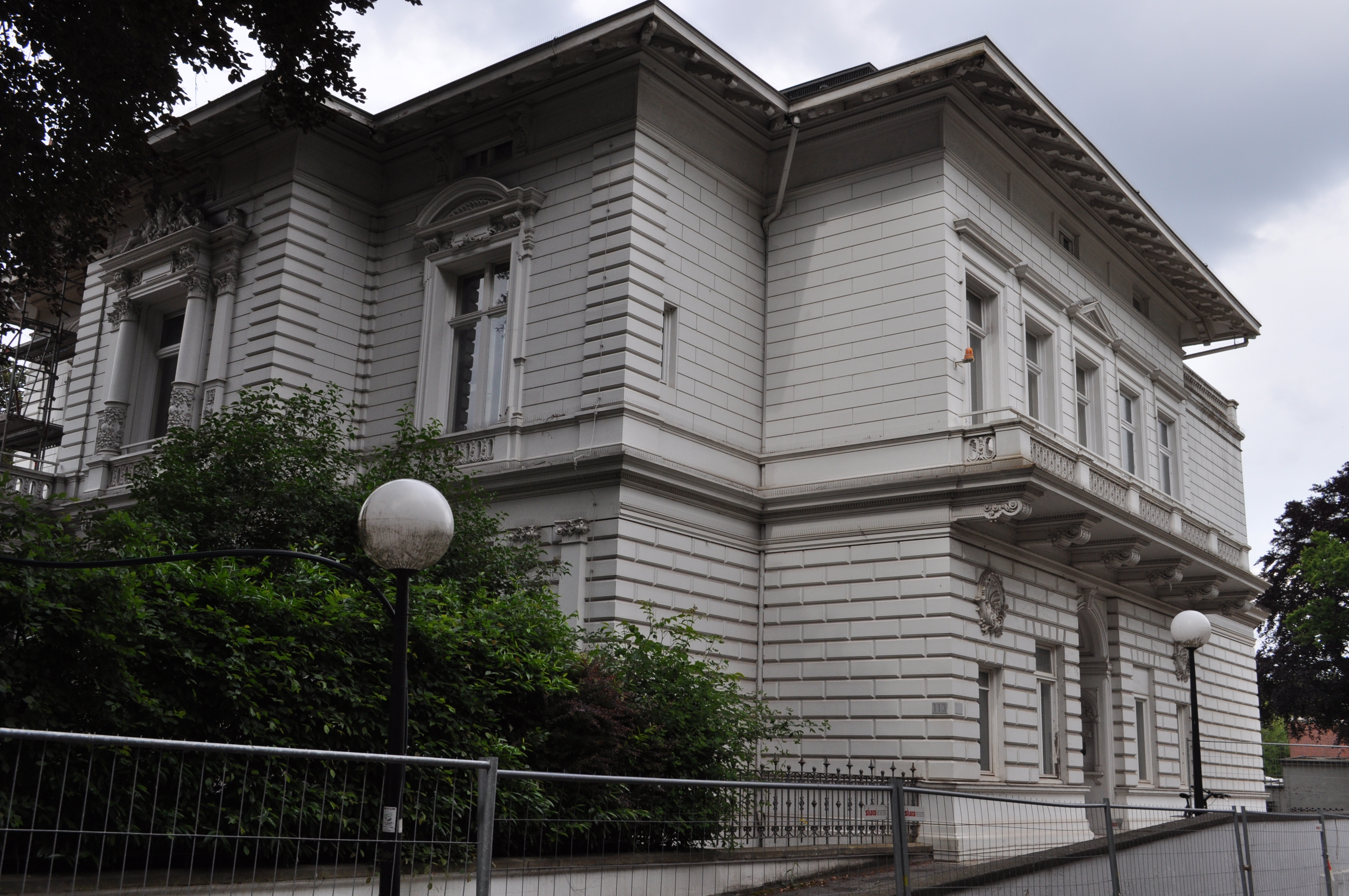 Haus Mittelweg 113 in Hamburg-Harvestehude. This is a photograph of an architectural monument. /1896 Stammann & Zinnow (Stammann, Hugo/Zinnow, Gustav)